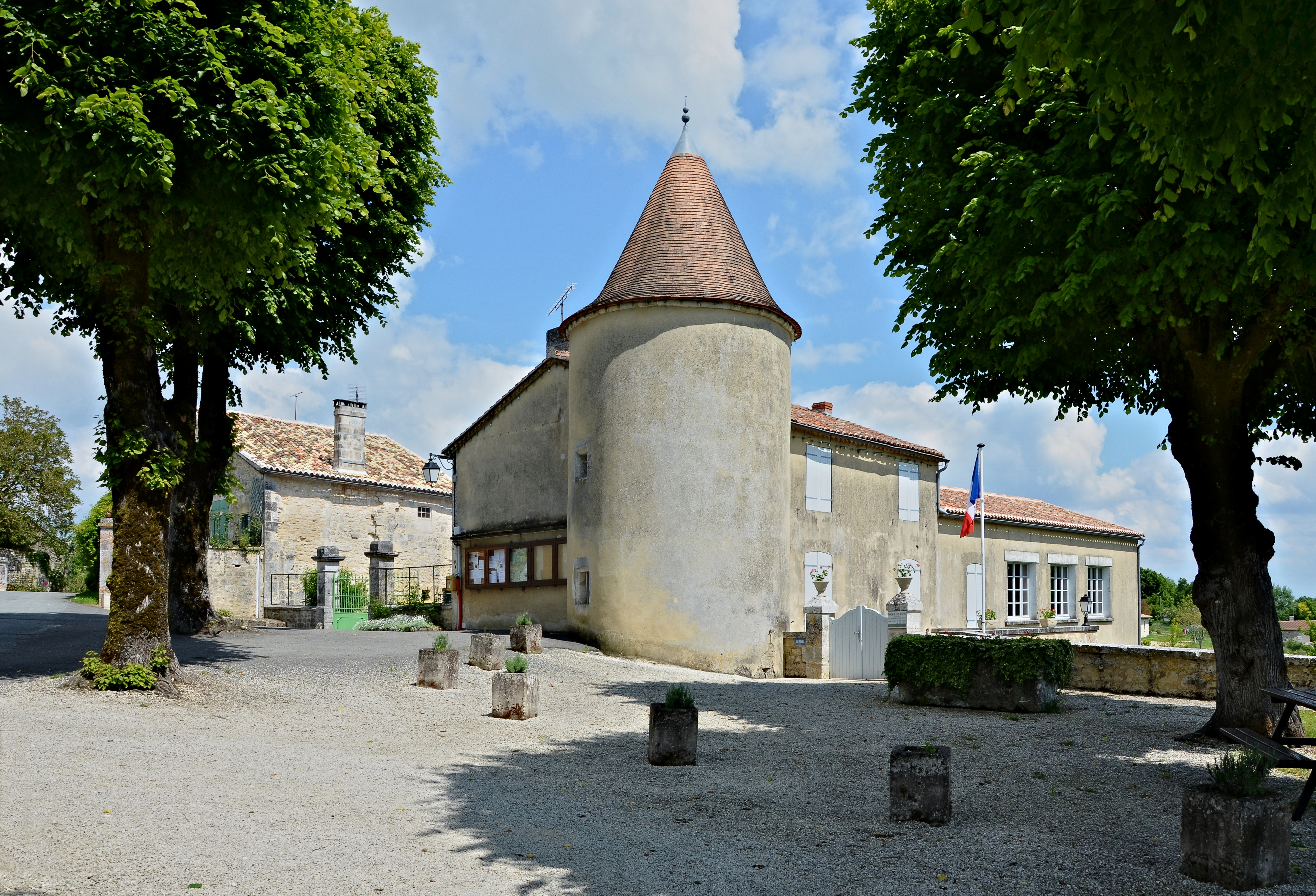 Town hall of Édon, Charente, France.